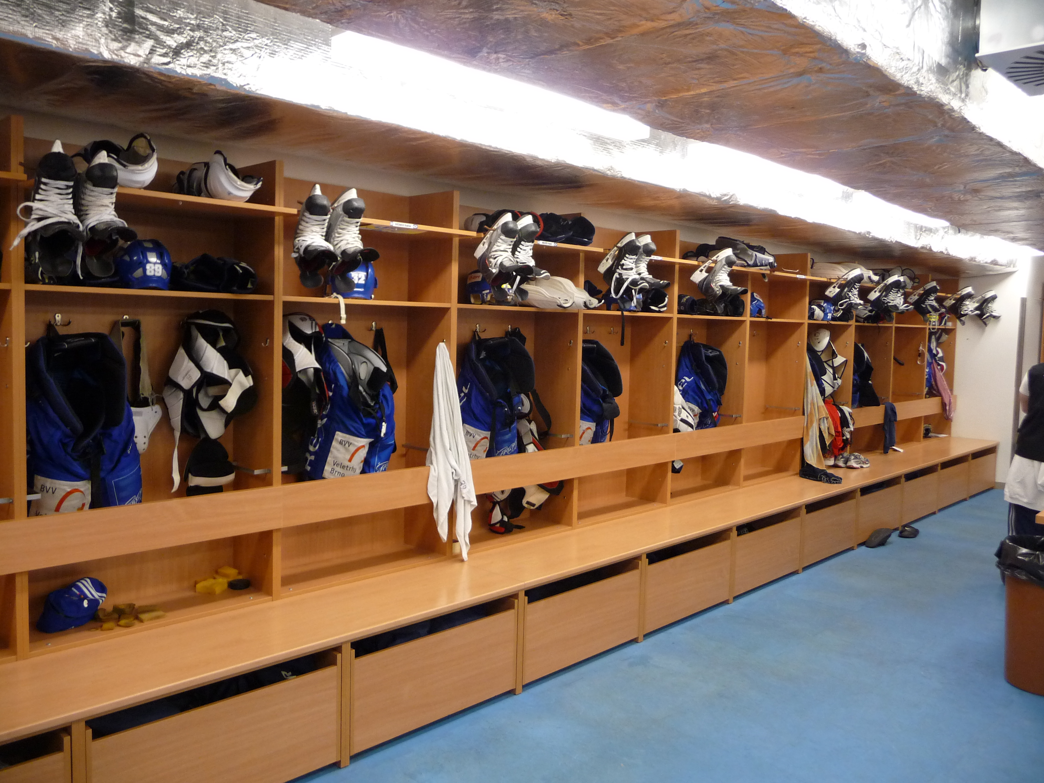 A team dressing room, Farewell the HC Kometa Brno with season 2010/2011 -10-5-3-2◄►+2+3+5+10